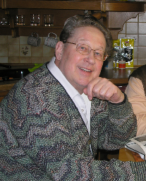 Photo of Russian opera singer Evgeny Nesterenko